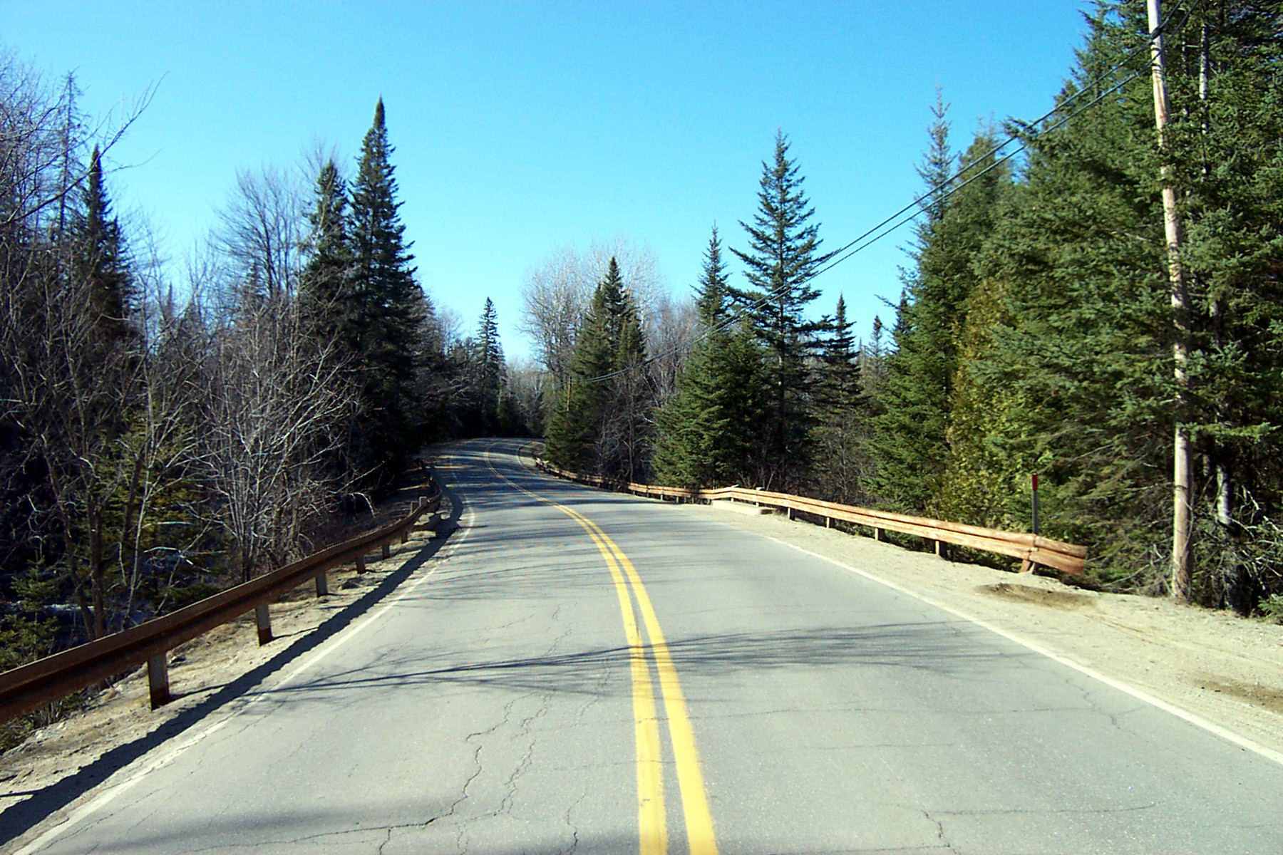 Maine State Route 145 looking northbound